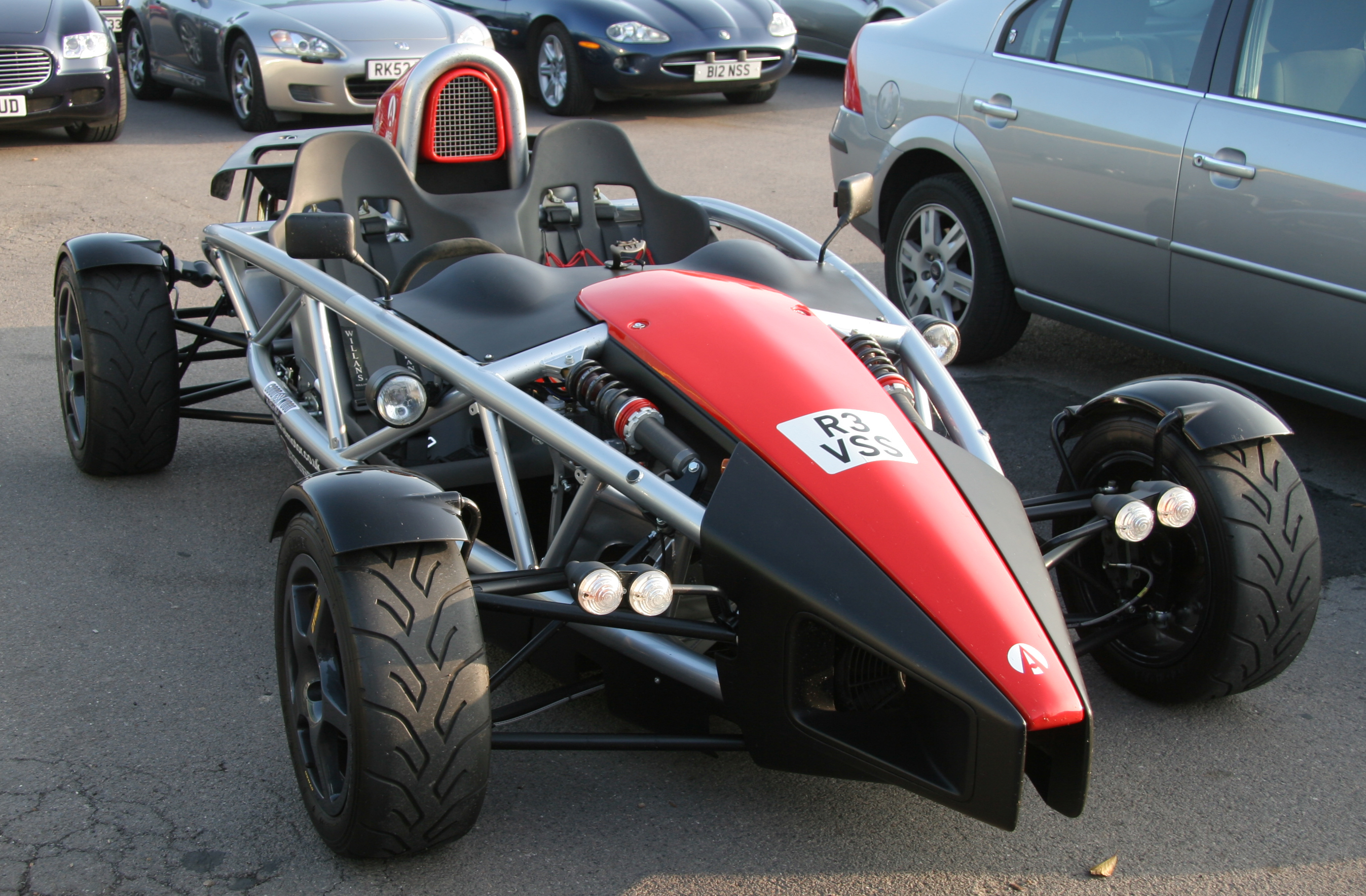 Goodwood car park - Ariel Atom Goodwood car park - Ariel Atom